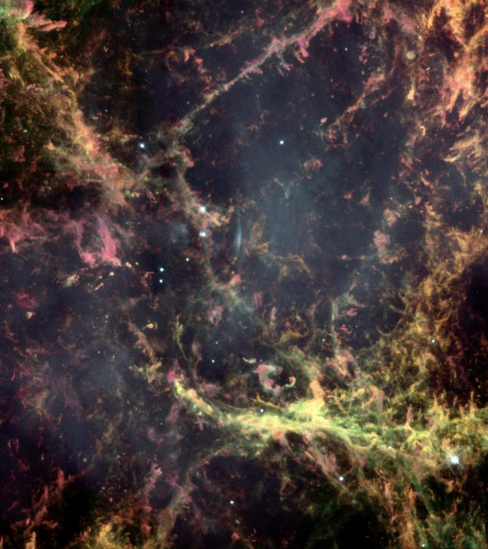 Hubble Space Telescope image of filaments in the Crab Nebula (M1, NGC 1952).